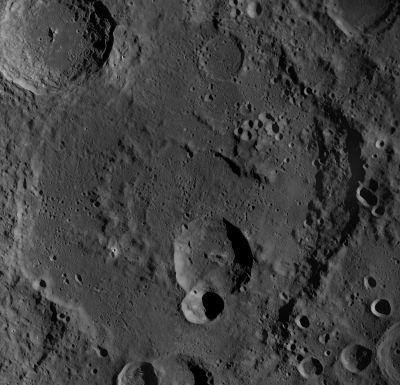 LROC mosaic image (WAC No's. M130883147ME, M130889941ME, M130896709ME, M130903508ME, M130917068ME, M130923866ME, M130930660ME).